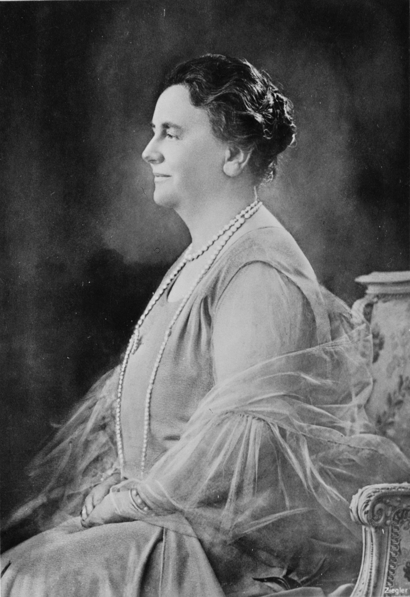 Queen Wilhelmina of the Netherlands, queen regnant of the Kingdom of the Netherlands from 1890 to 1948